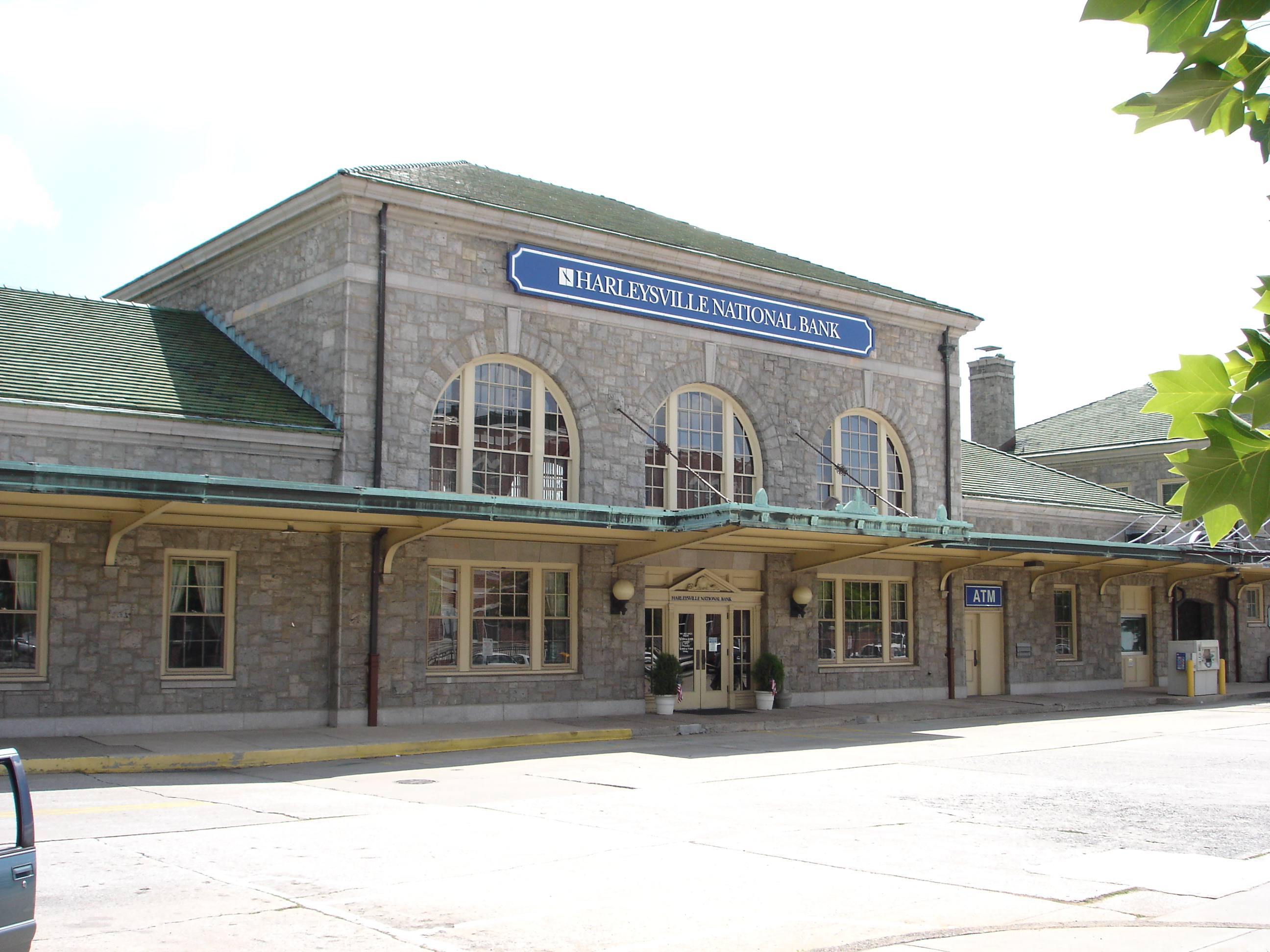 Streetside view of former Reading Company Station in Pottstown, PA, now a Harleysville National Bank.